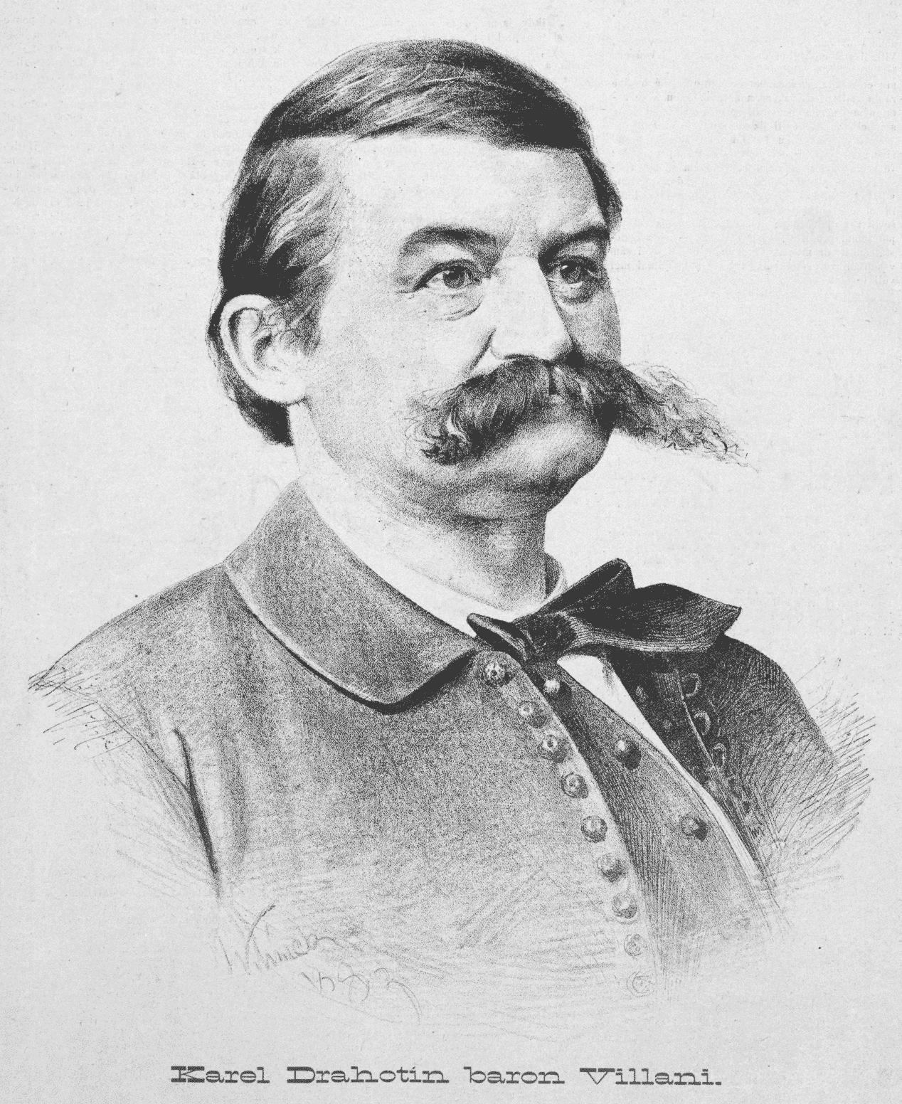 Portrait of baron Karel Drahotín Villani, Czech poet